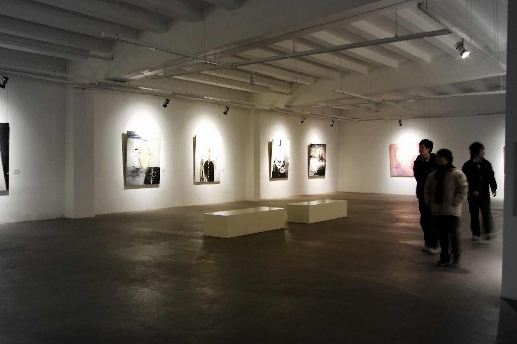 One portray exhition in 798 zone 中文（中国大陆）: 798内某绘画展厅